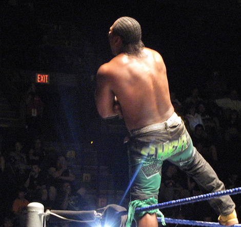 JTG at a Smackdown live event in Binghamton, New York at the Broome County Arena on September 4, 2010. Taken with a Canon PowerShot SX10 IS.